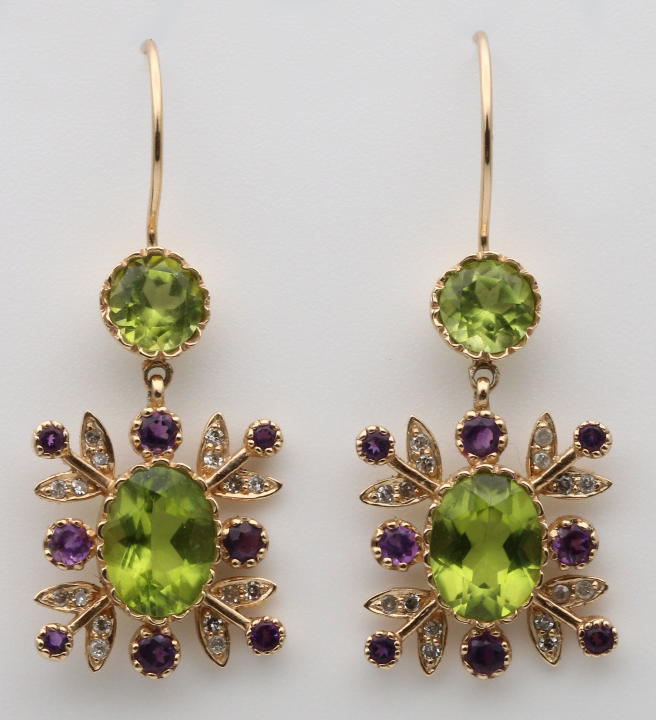 Gold ear rings in suffragette colours